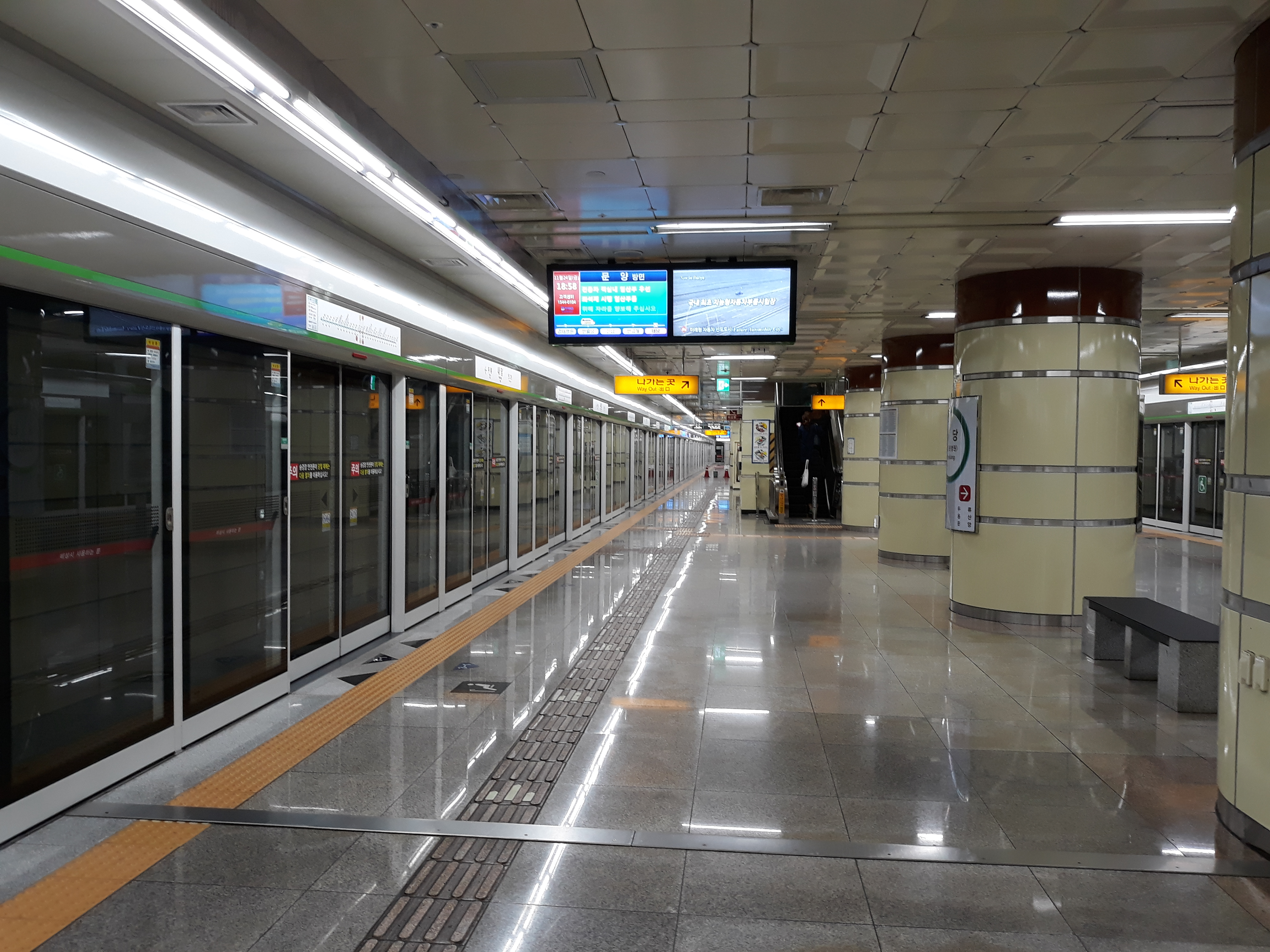 The platform at Naedang Station on the Daegu Metro Line 2, Republic of Korea(South Korea)